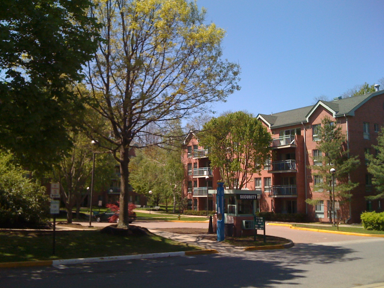 NYMC Student Housing